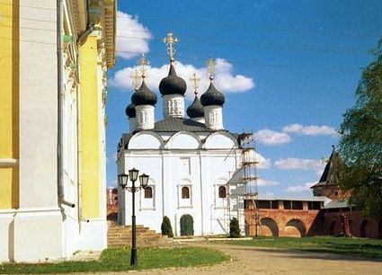 This is the most old and the most remarkable of the Zaraysk churches. It was built in en:1681. On the left side of the churches wall a brass memorial board is placed, which tells one about Dmitry Pozharsky who was once a voevode of Zaraysk. The left side of a photo is occupied with a wall of another cathedral - the John the Baptist's cathedral. On the background you can see the east wall of the citadel and its Naugol'naya (corner) tower. The picture was made by user:Arseni and is free for use.